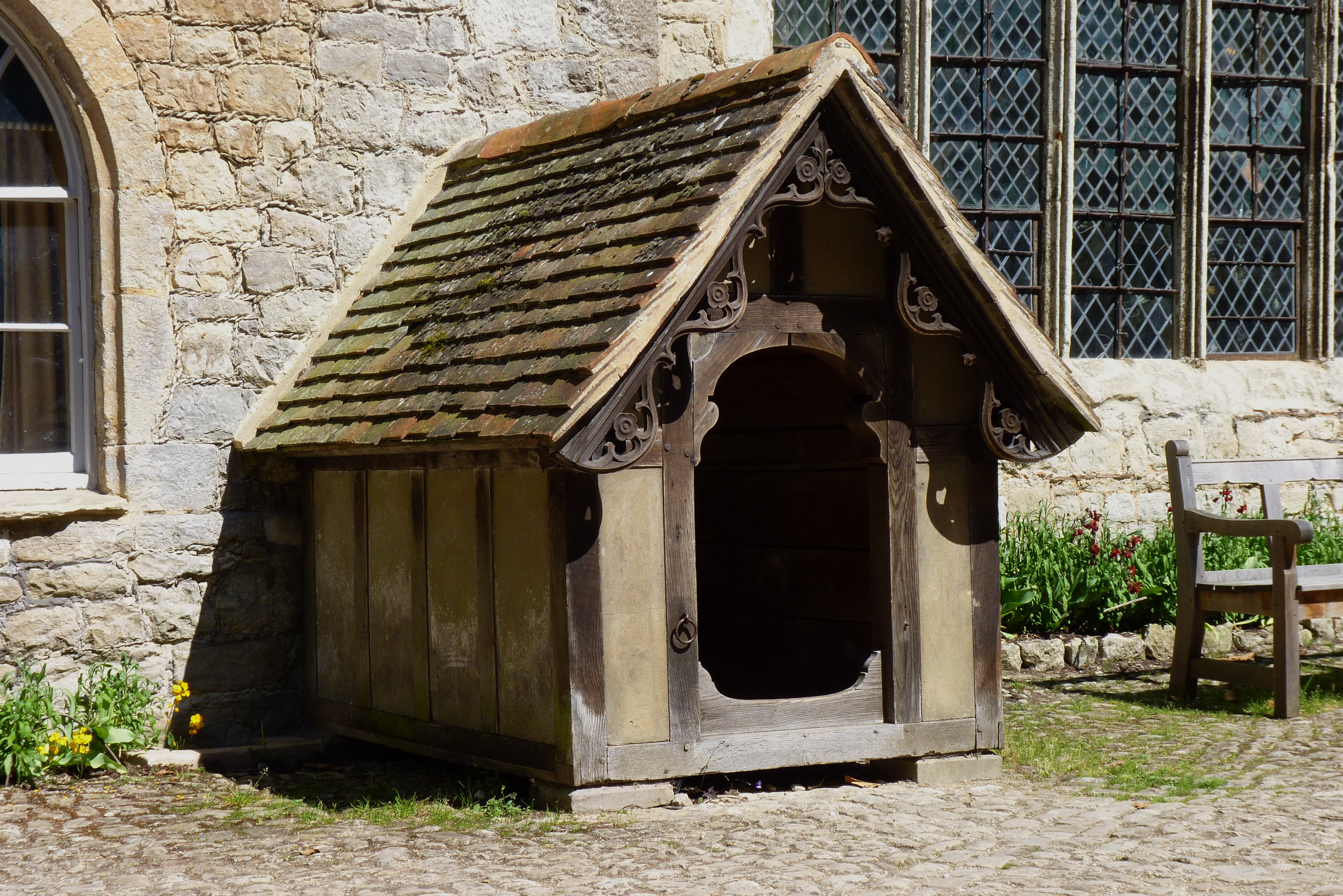 Kennel of the late 19th century in the courtyard of Ightham Mote, built for a Saint Bernard dog named Dido